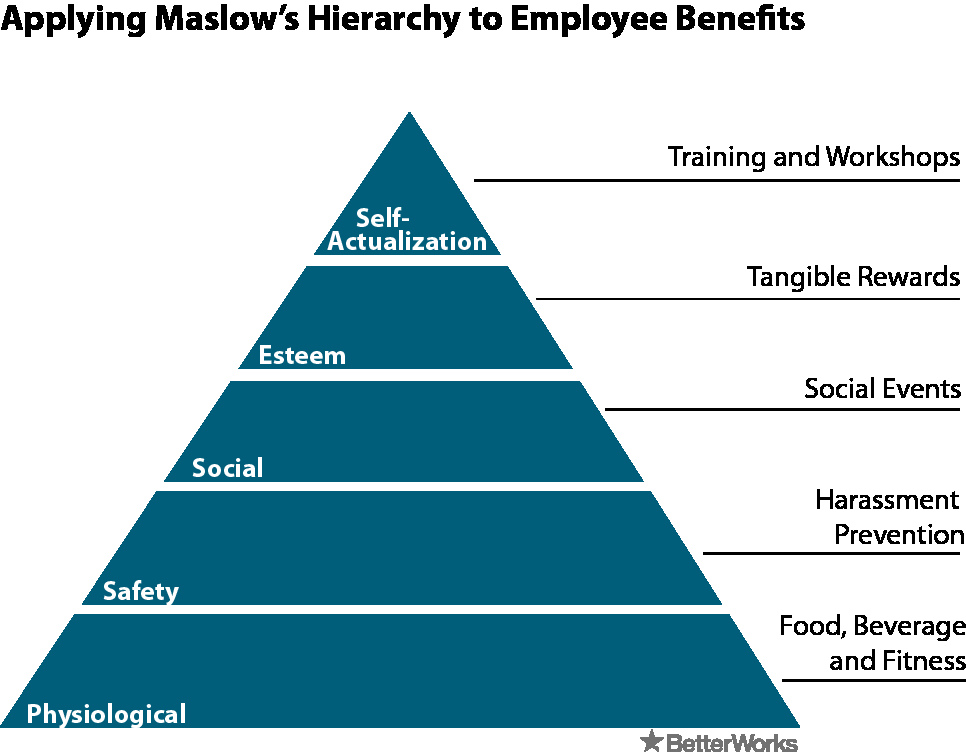 Maslow's Hierachy of Needs